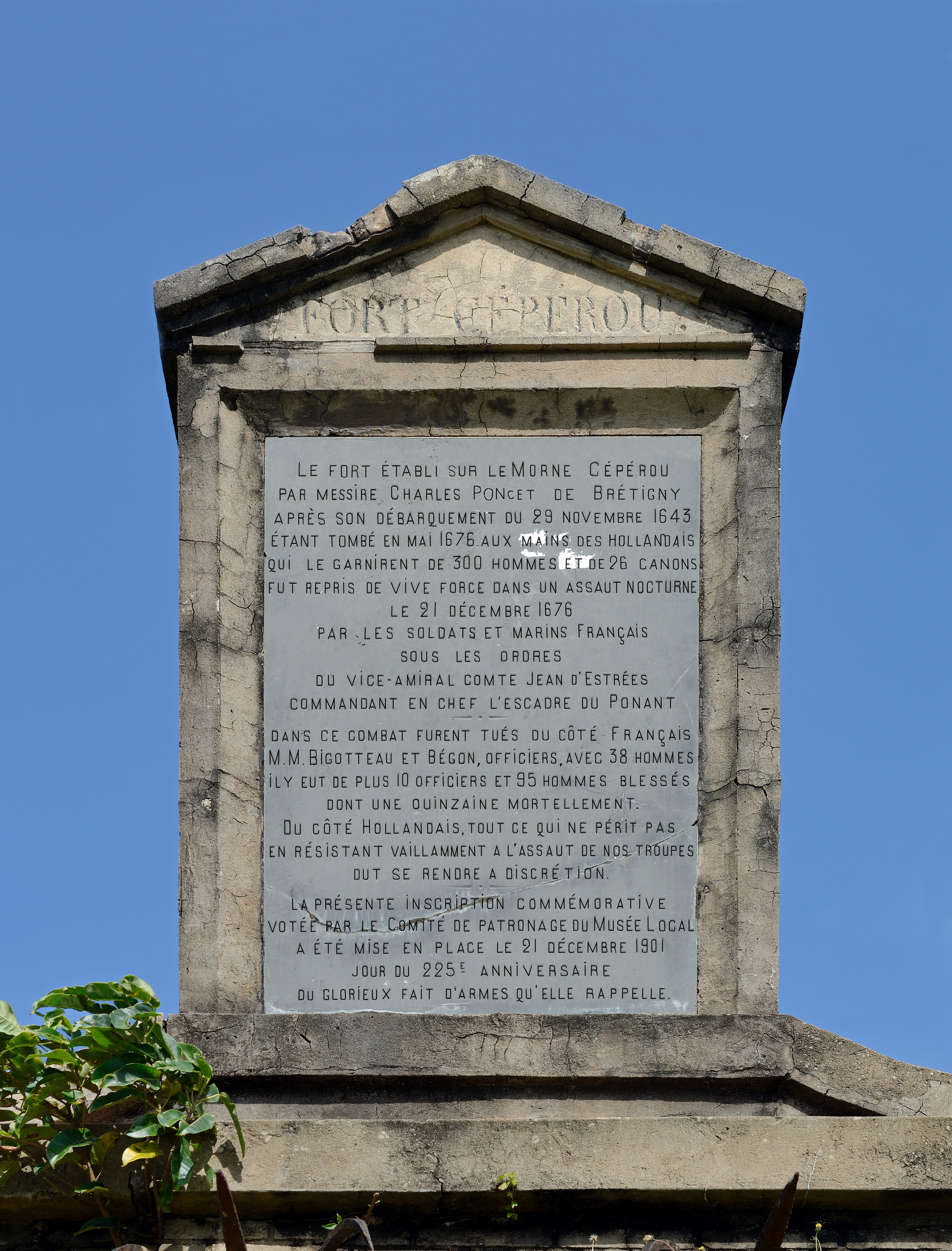 Cayenne, French Guiana, fort Cépérou: plaque of 1901 commemorating the battle of 1676 in which the French army reoccupied the fortification. With black letters for reading help.